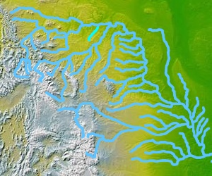 Redwater River ©2004 Matthew Trump